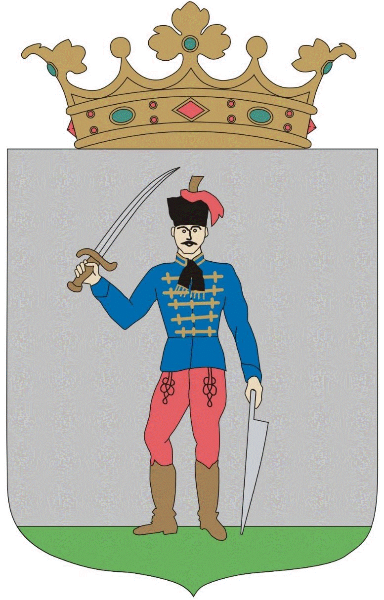 Coat of Arms of the city and municipality of Kanjiža, Serbia